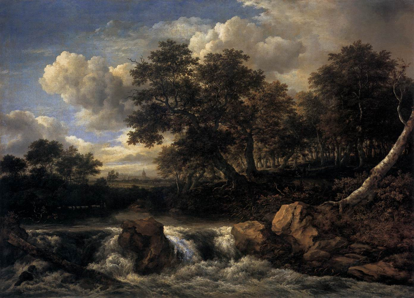 Landscape with on the foreground a waterfall running over rocks, flanked by fallen tree trunks. On the background a small forest. Further on in the distance a village with church spire and windmills can be seen.